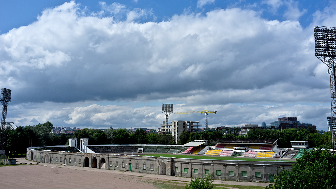 View of Žalgiris stadium in Vilnius, capital of Lithuania